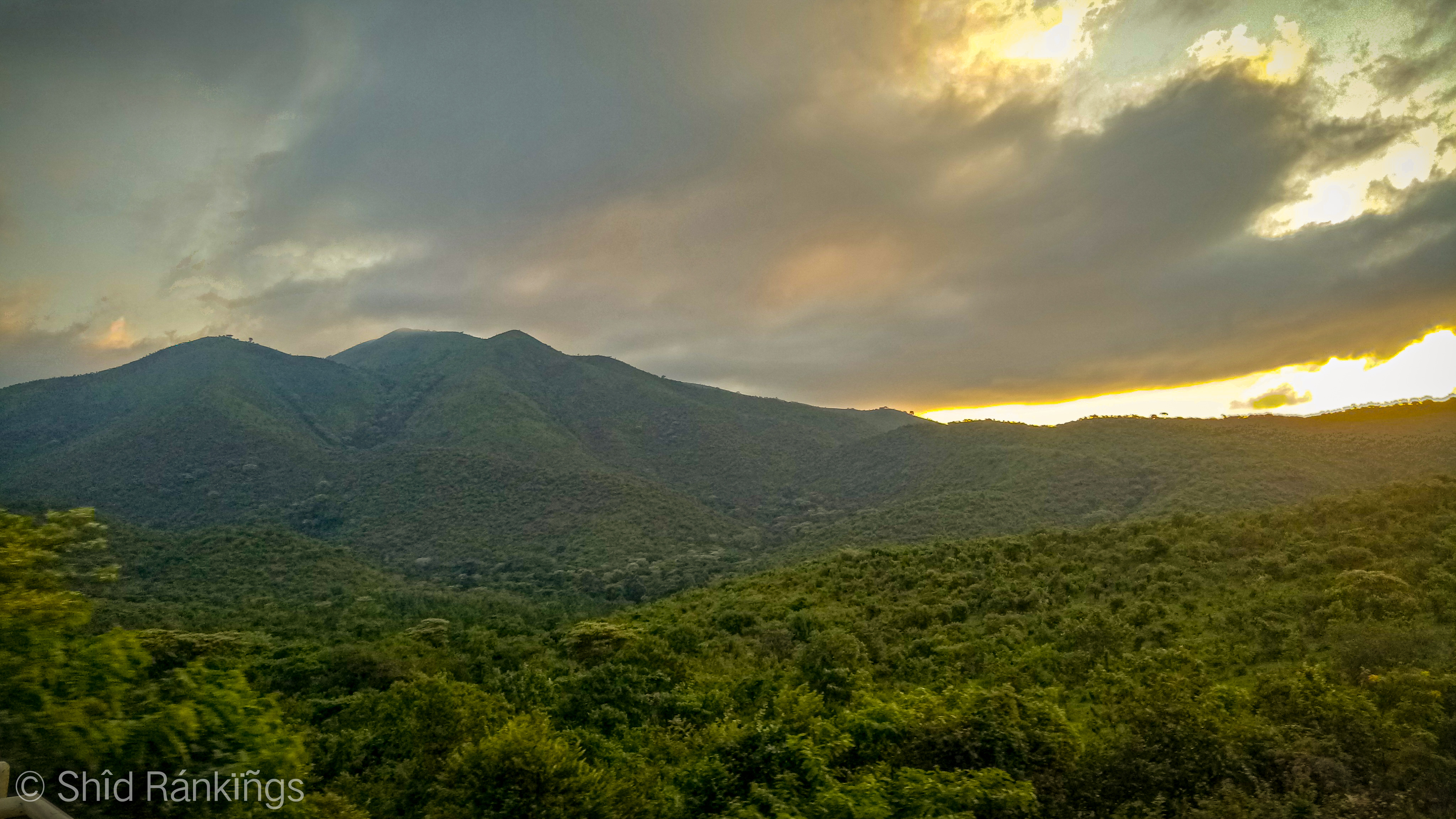 This is an image with the theme "Africa on the Move or Transport" from: Uganda